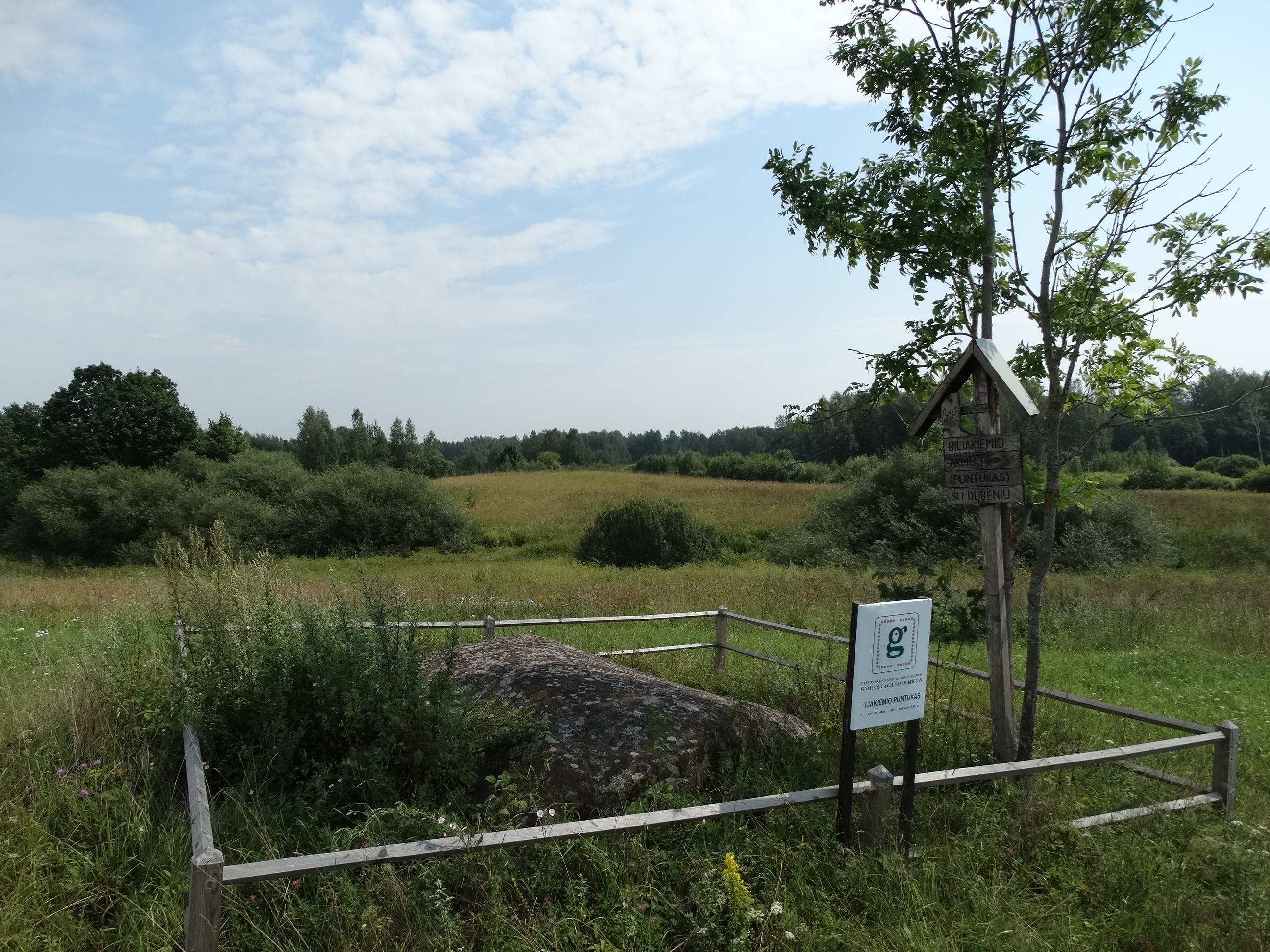 Biliakiemis Puntukas Stone, Utena District, Lithuania